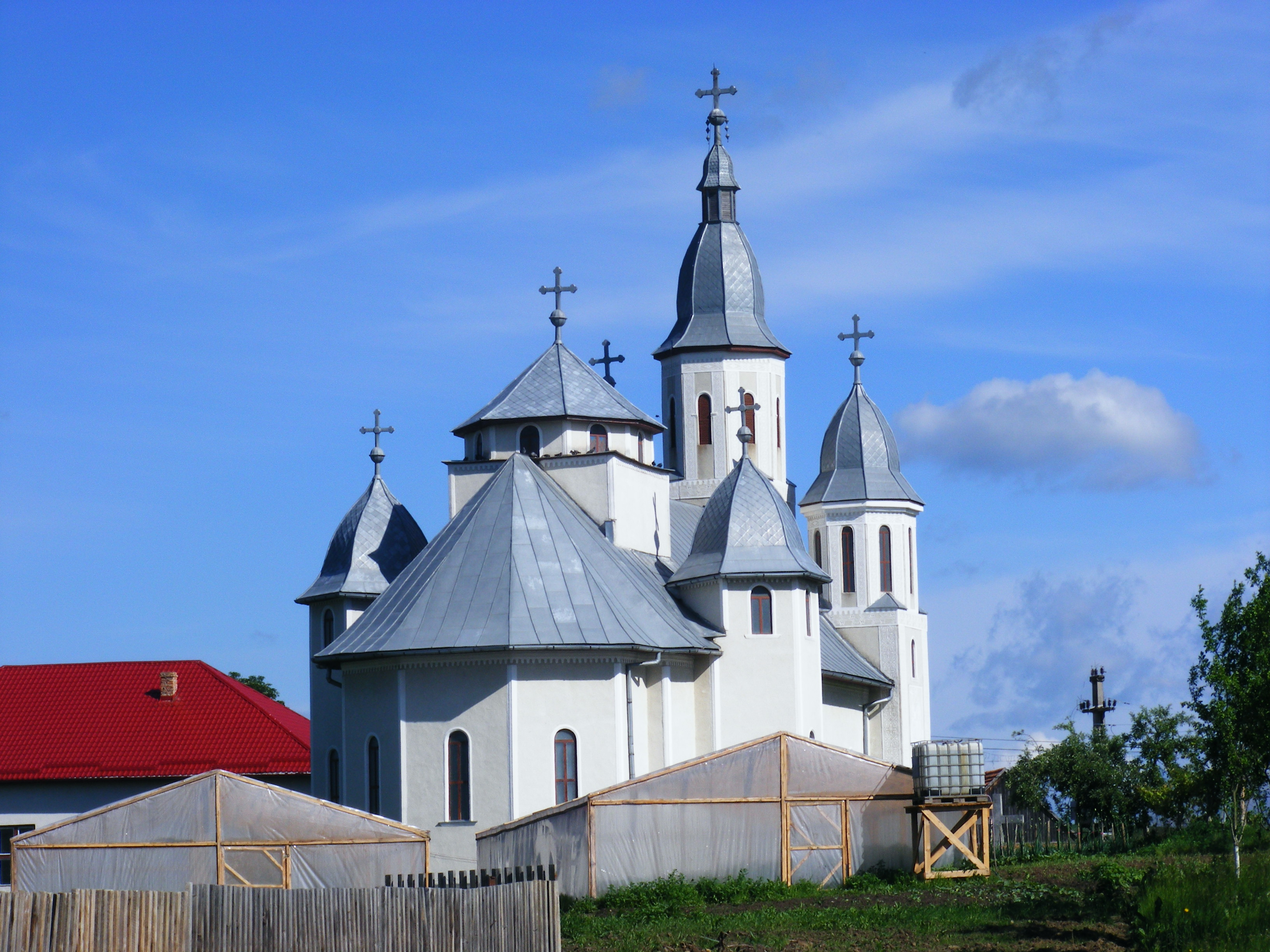 Ortodoxian church in Coruşu (Nádaskóród).